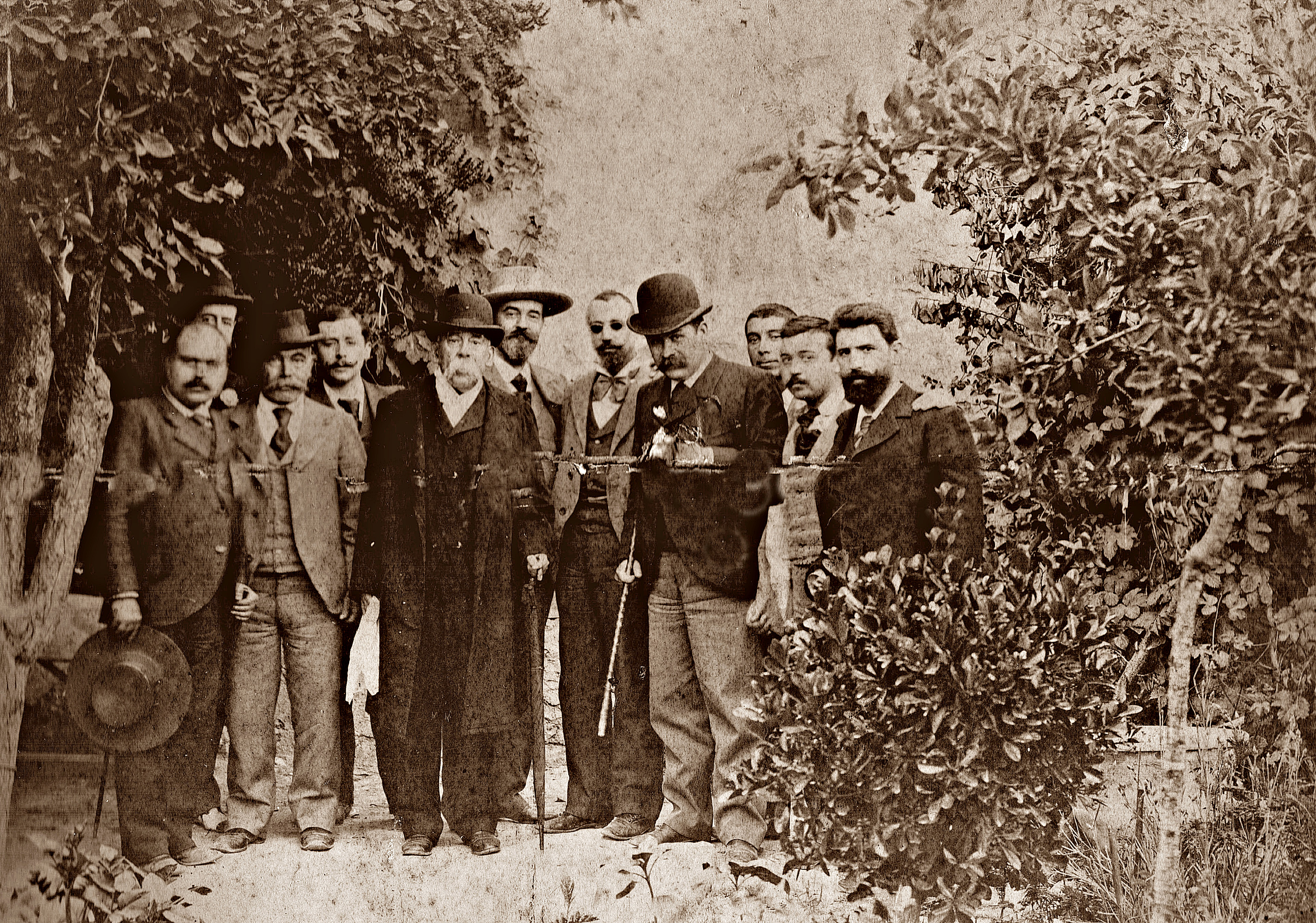 Emilio Castelar (in the center of the photograph, with bowler hat and white mustache), last president of the First Spanish Republic, receiving friends in Quinta de San Sebastián (San Pedro del Pinatar, Region of Murcia). Next to him pose the journalist and politician José García Vaso (to the left of Castelar and in the background) and the poet Vicente Medina (first on the right). The photograph is prior to September 7, 1899, the date on which President Castelar died.